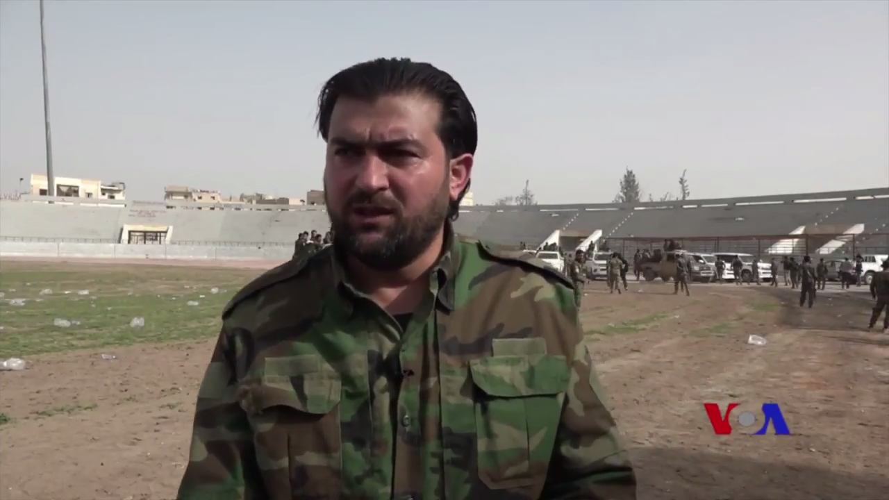 Absi Taha, also known by his nom de guerre Abu Omar al-Idlibi, a commander in the Northern Democratic Brigade, in the Raqqa stadium.